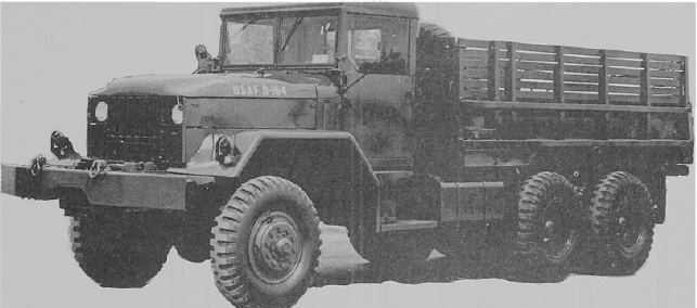 Left front side M54